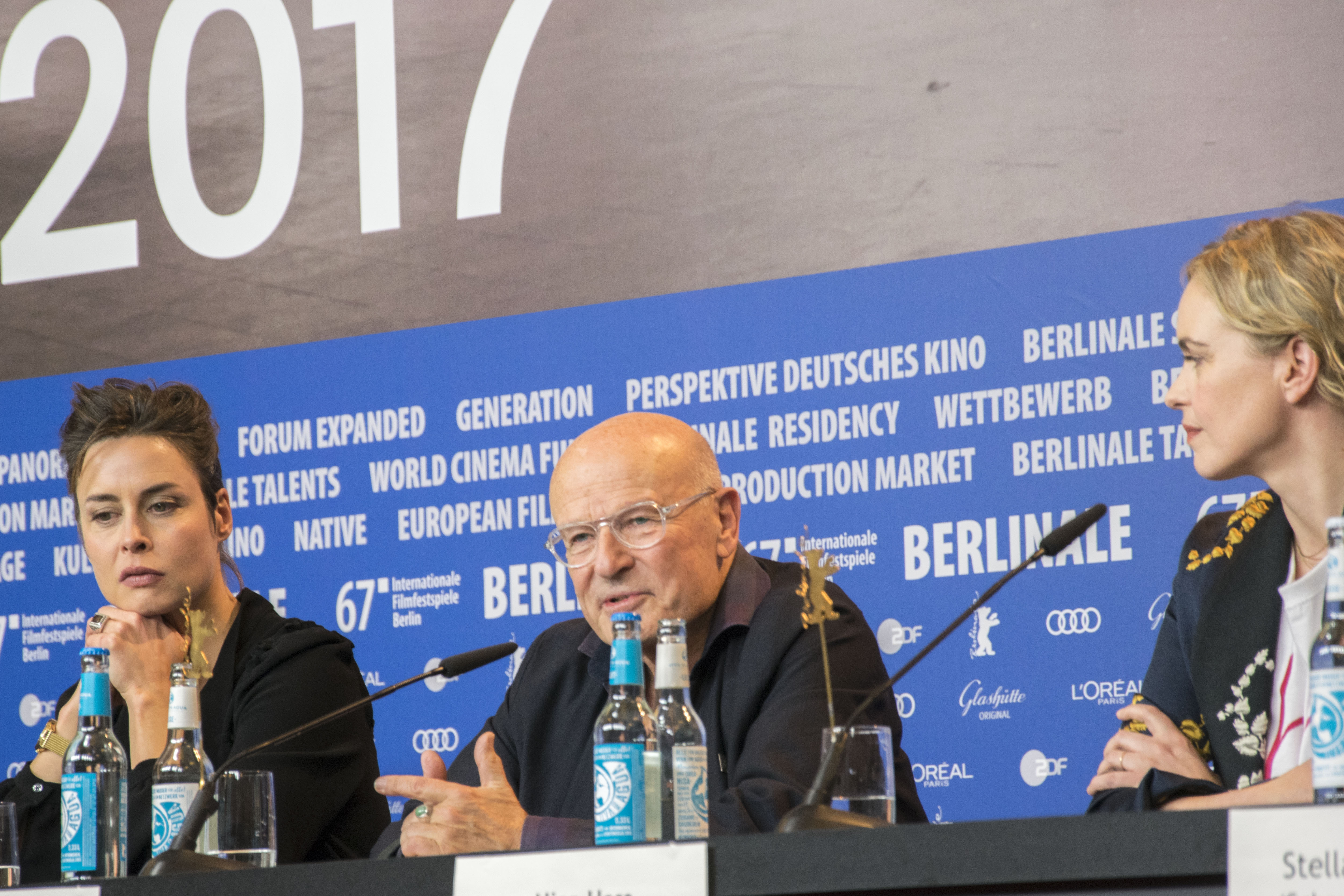 Susanne Wolff, Volker Schlöndorff and Nina Hoss at the press conference of Return to Montauk at the 2017 Berlin International Film Festival